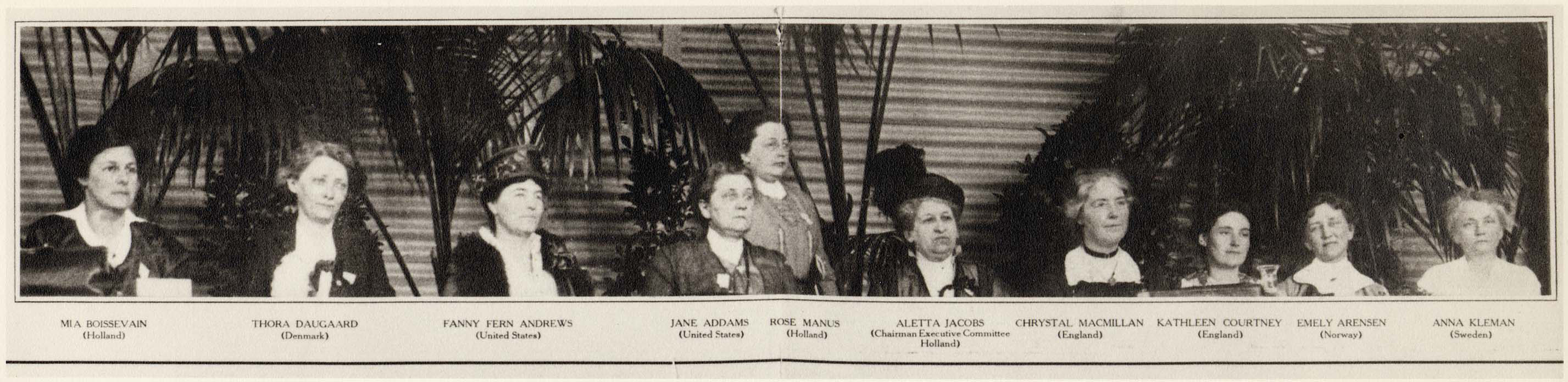 Officers of the International Congress of Women for a Permanent Peace, The Hague, 1915